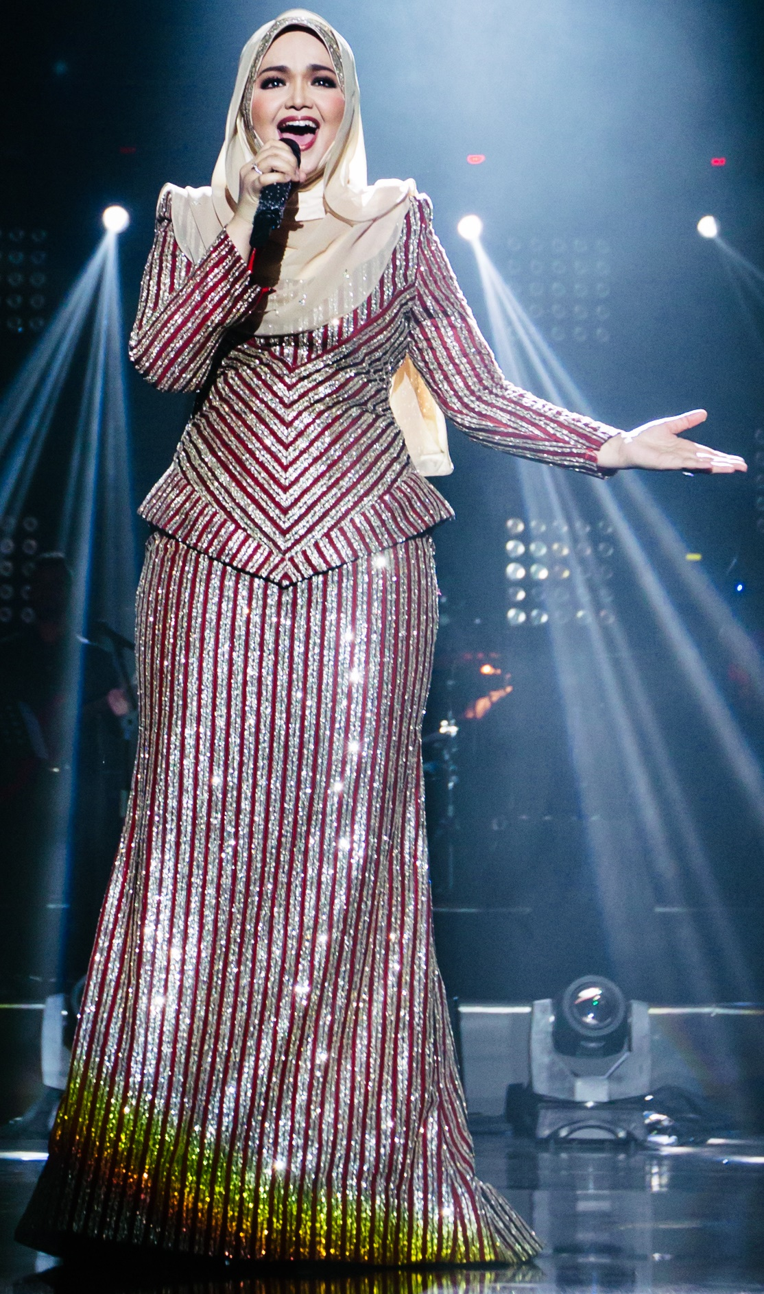 Siti Nurhaliza performing "Memories", a previously unreleased song by Whitney Houston at her Dato' Siti Nurhaliza & Friends Concert on 2 April 2016 at Stadium Negara. Original source is from All Is Amazing's Official Facebook Account.